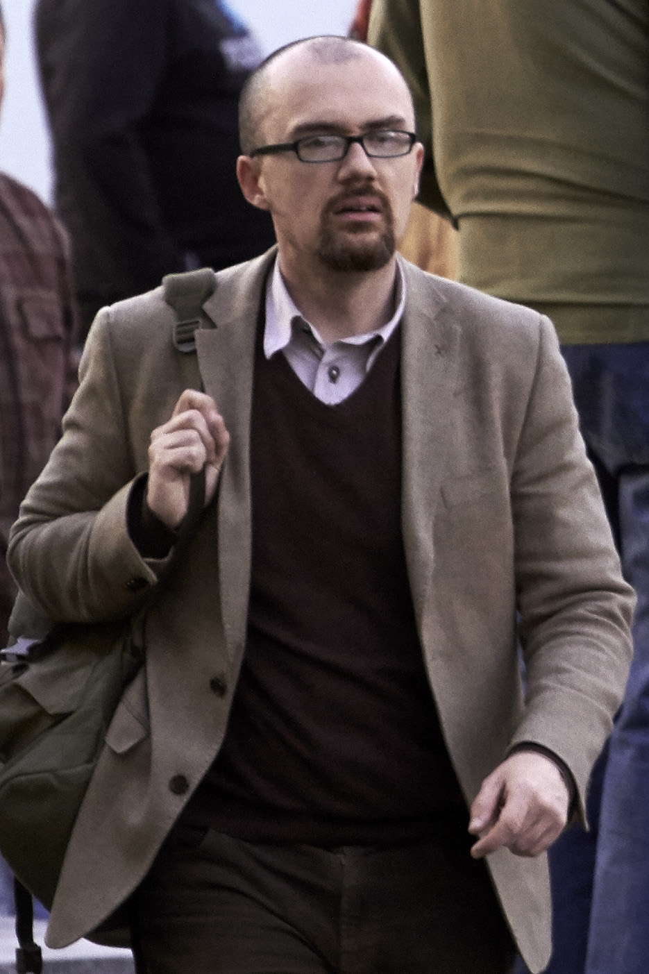 Hans-Thomas Tillschneider from German right wing party Alternative für Deutschland (AfD) at refugeephobic and islamophobic Legida demonstration in Leipzig.